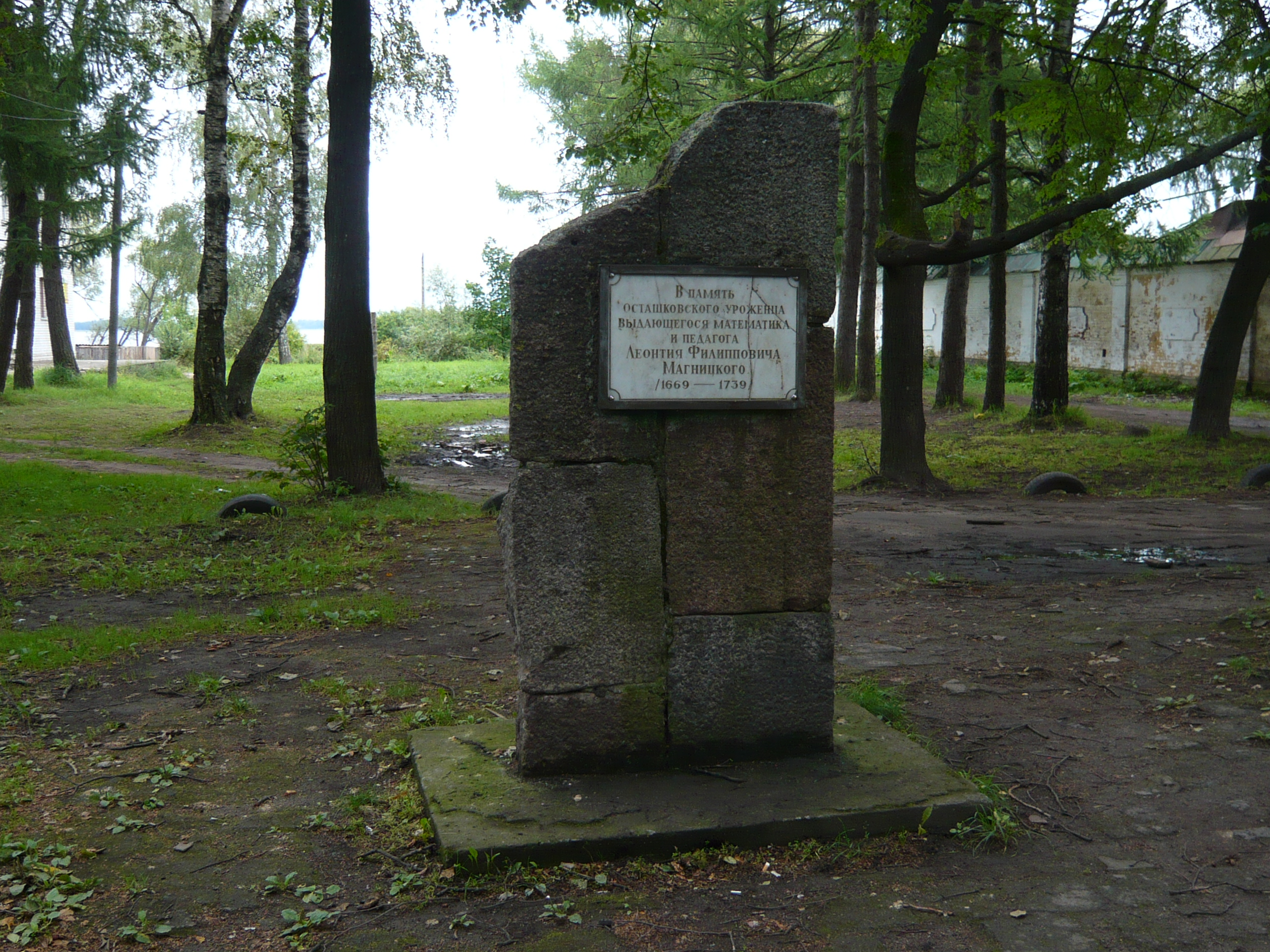 The monument in honor of Leonty Magnitsky in the city Ostashkov